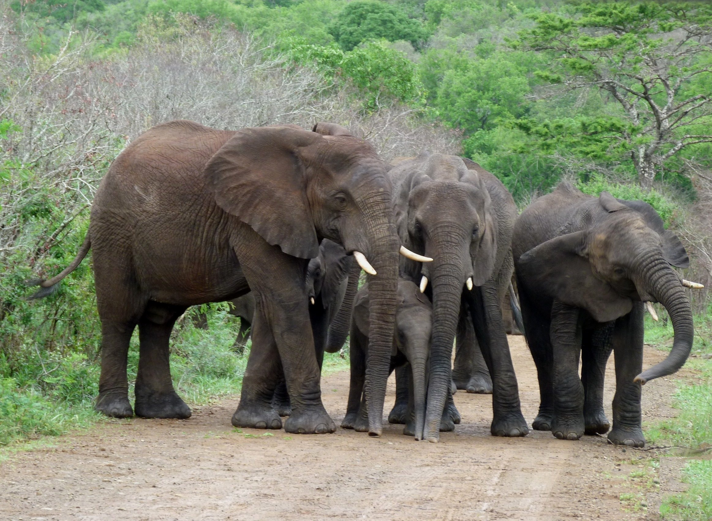 On the track, male and female protect small. Hluhluwe-Umfolozi Game Reserve, KwaZulu-Natal, South Africa